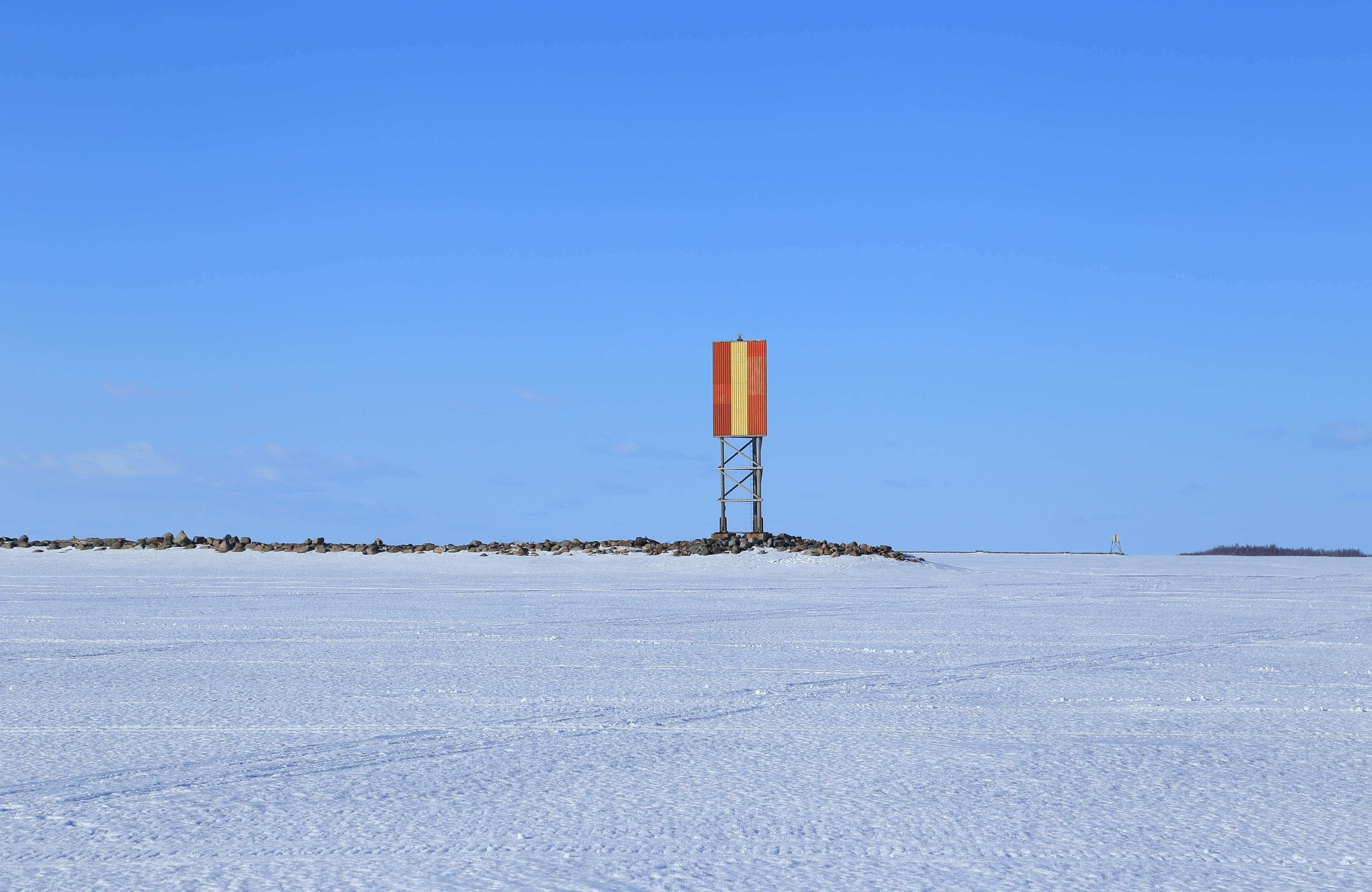 A leading beacon in the end of a breakwater in the Röyttä island in Ii, Finland.